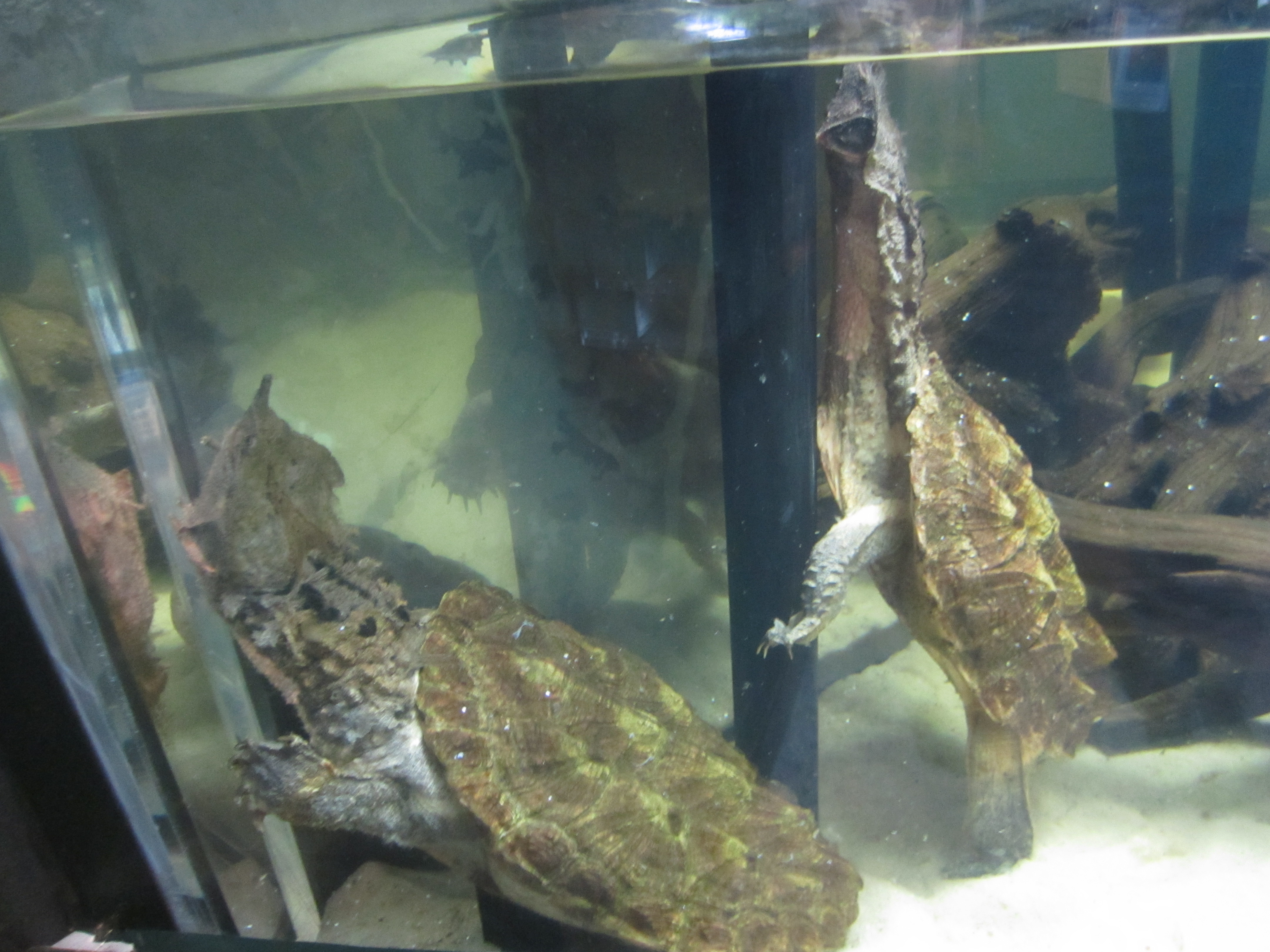 Mata mata turtles on exhibit at the North Carolina Museum of Natural Sciences in Raleigh, North Carolina.